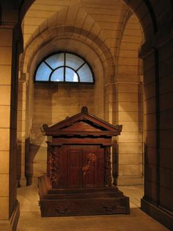 Tomb of Jean-Jacques Rousseau in the Pantheon, Paris